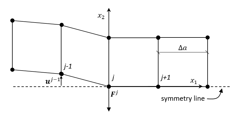 This is a schematic of the MCCI process in fracture mechanics